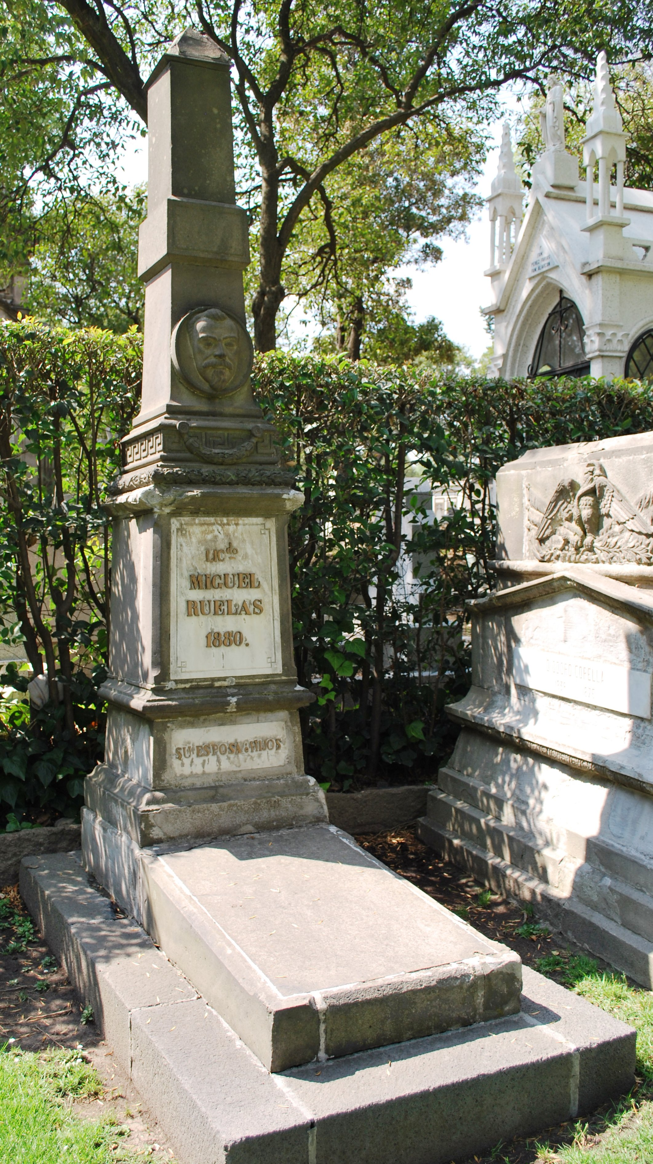 Tomb of Miguel Ruelas in the Panteon Civil de Dolores cemetery in Mexico City